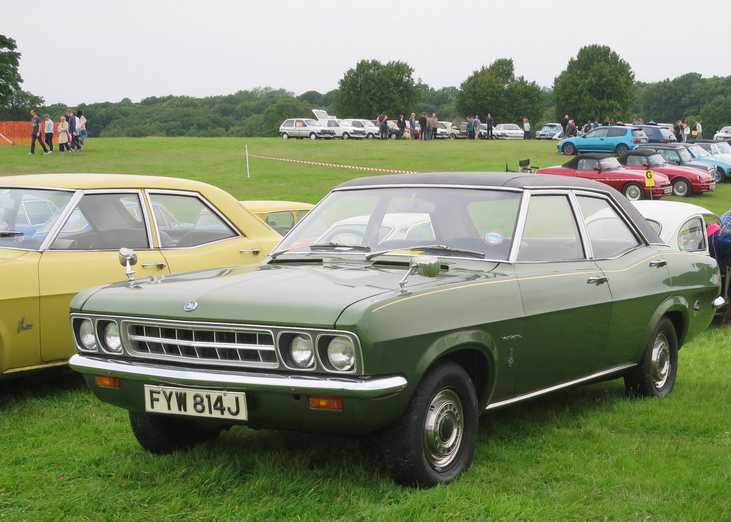 Vauxhall Ventora (1971) at Knebworth (2015)